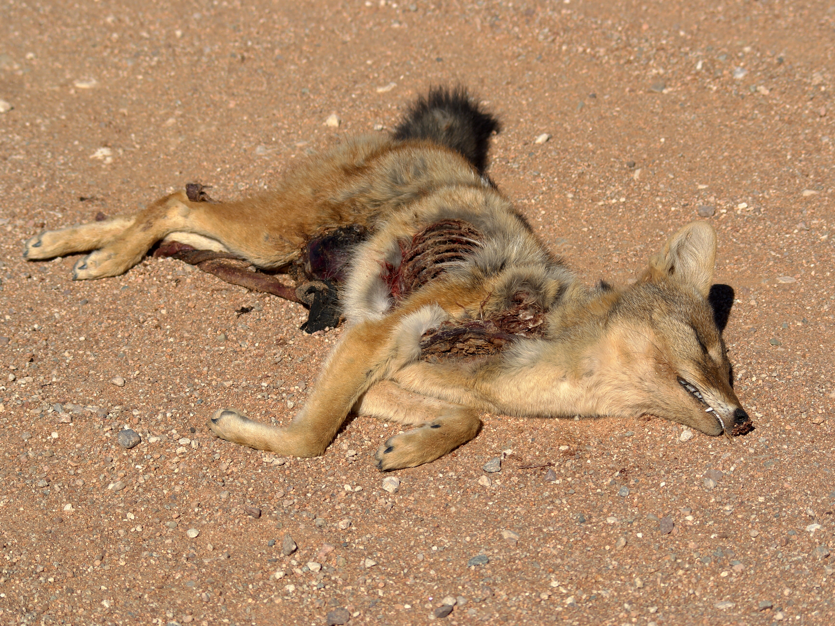 A Black-backed Jackal roadkill on the road between Maltahöhe and Sesriem in Namibia